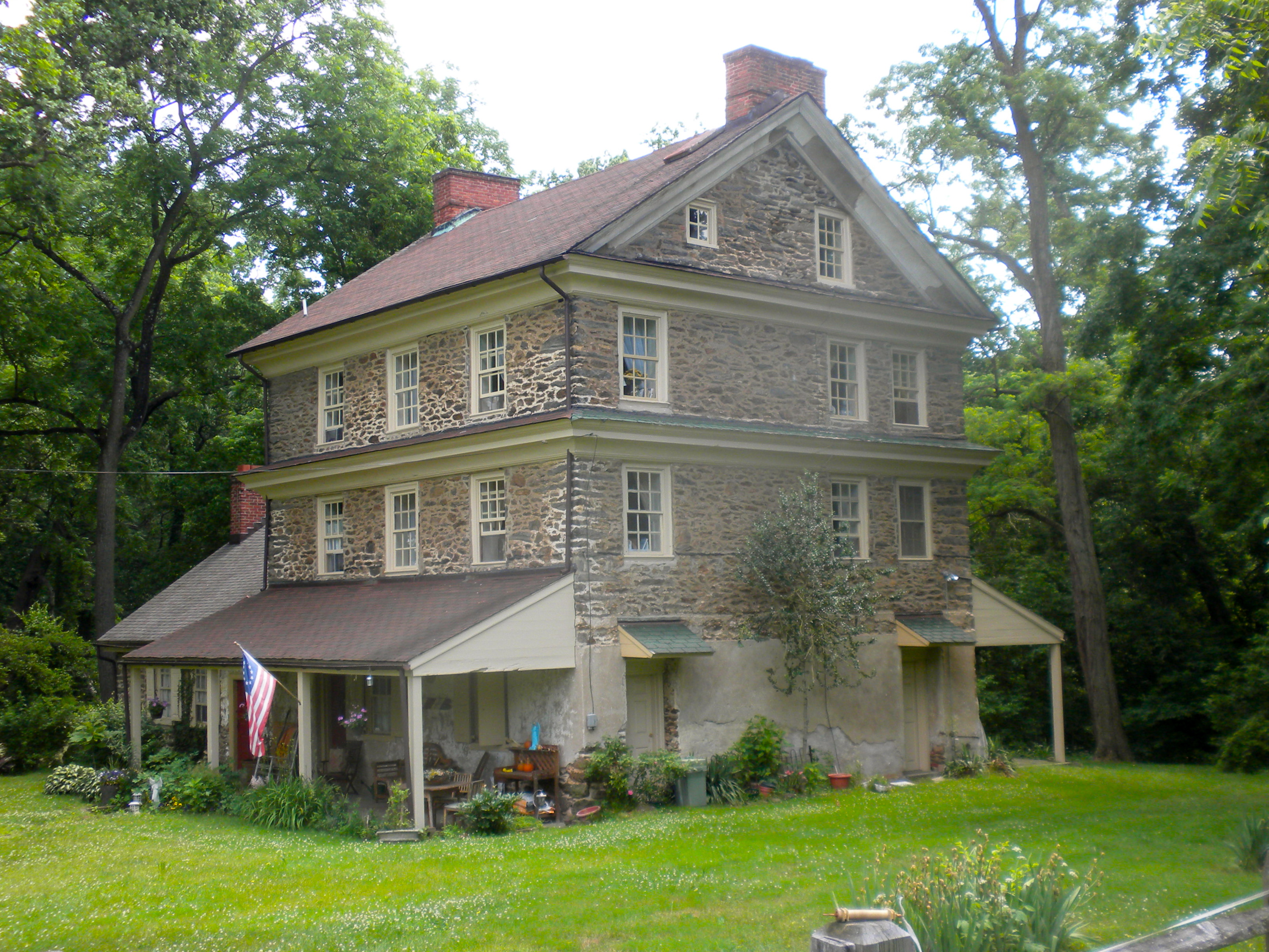 "The Monastery" on NRHP since March 16, 1972. At end of Kitchen's Lane at Wissahickon Creek in Fairmount Park in Northwest Philadelphia. Obviously not an actual monastery, but the name of a house. Horse farm nearby for riders in the park.